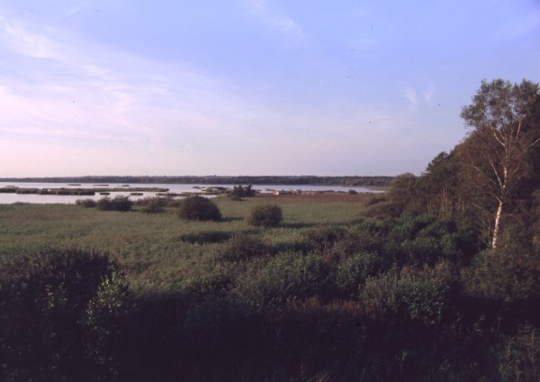 eastern shore of Krankesjön, Scania, Sweden